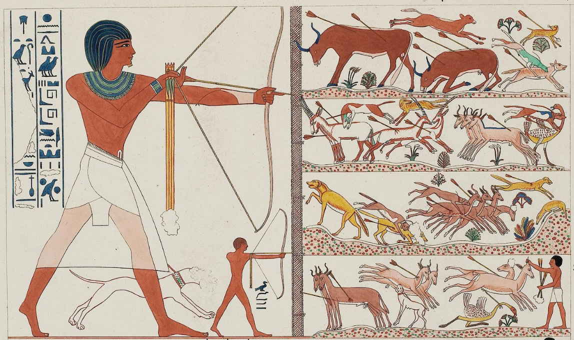 Scene from the tomb of Neferhotep, Theban tomb A5.